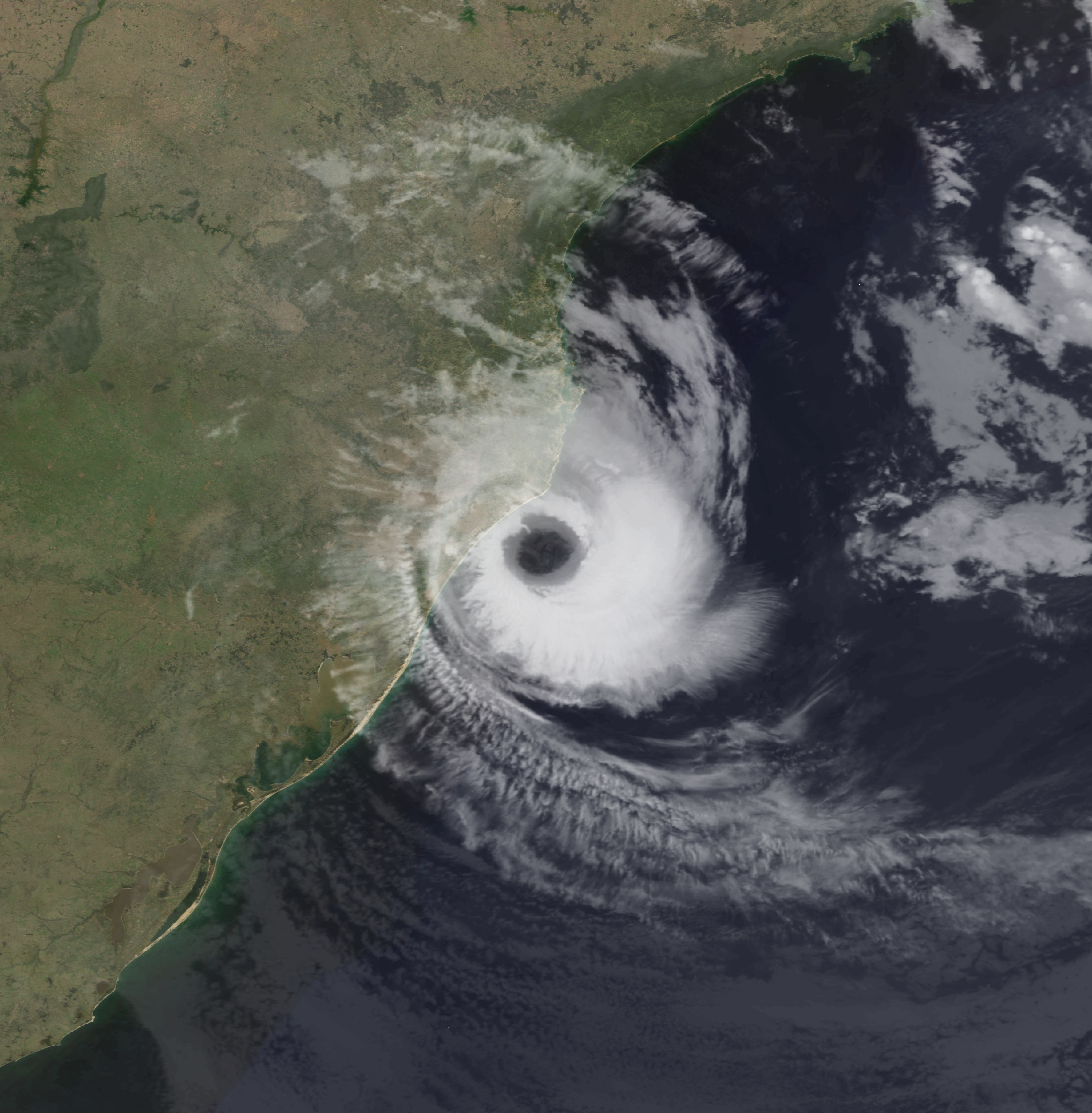 Hurricane Catarina near peak intensity and approaching Brazil on March 28